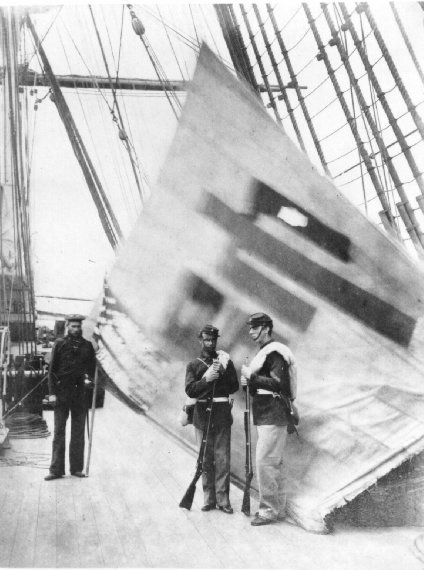 Captured flag aboard the USS Colorado. On the far right is U.S. Marine Corporal Charles Brown of the USS Colorado. Standing next to him is U.S. Marine Private Hugh Purvis from the USS Alaska. Both were awarded the Medal of Honor. The sailor on the left is believed to be Cyrus Hayden (U.S. Navy) who also received the Medal of Honor for the same action.